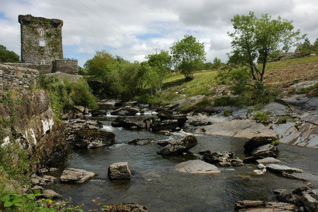 Carriganass Castle Carriganass Castle tower dates from 1541 when it was built by Clan Chieftain Dermot O'Sullivan Beare.